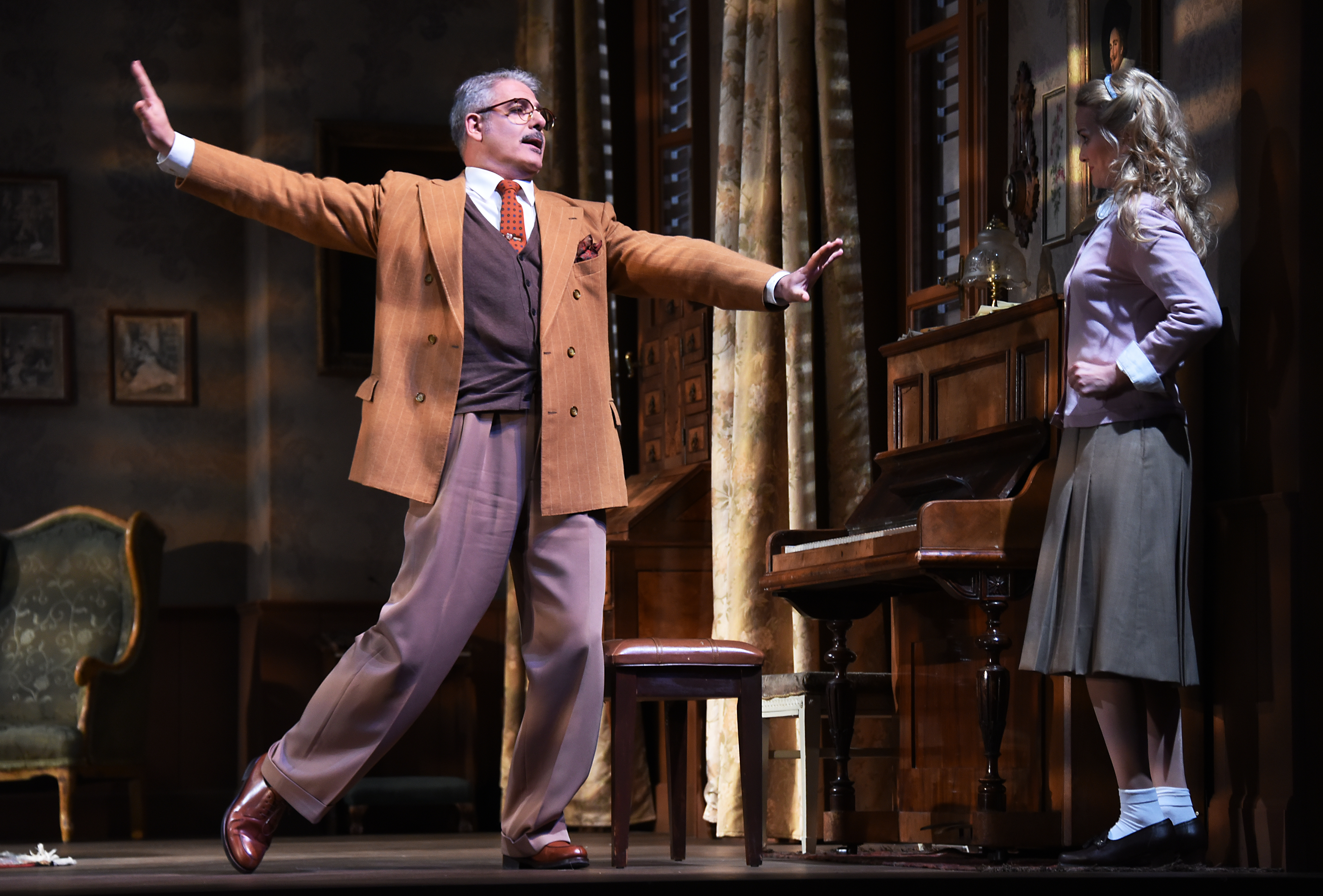 Il barbiere di Siviglia, Theater an der Wien 2015